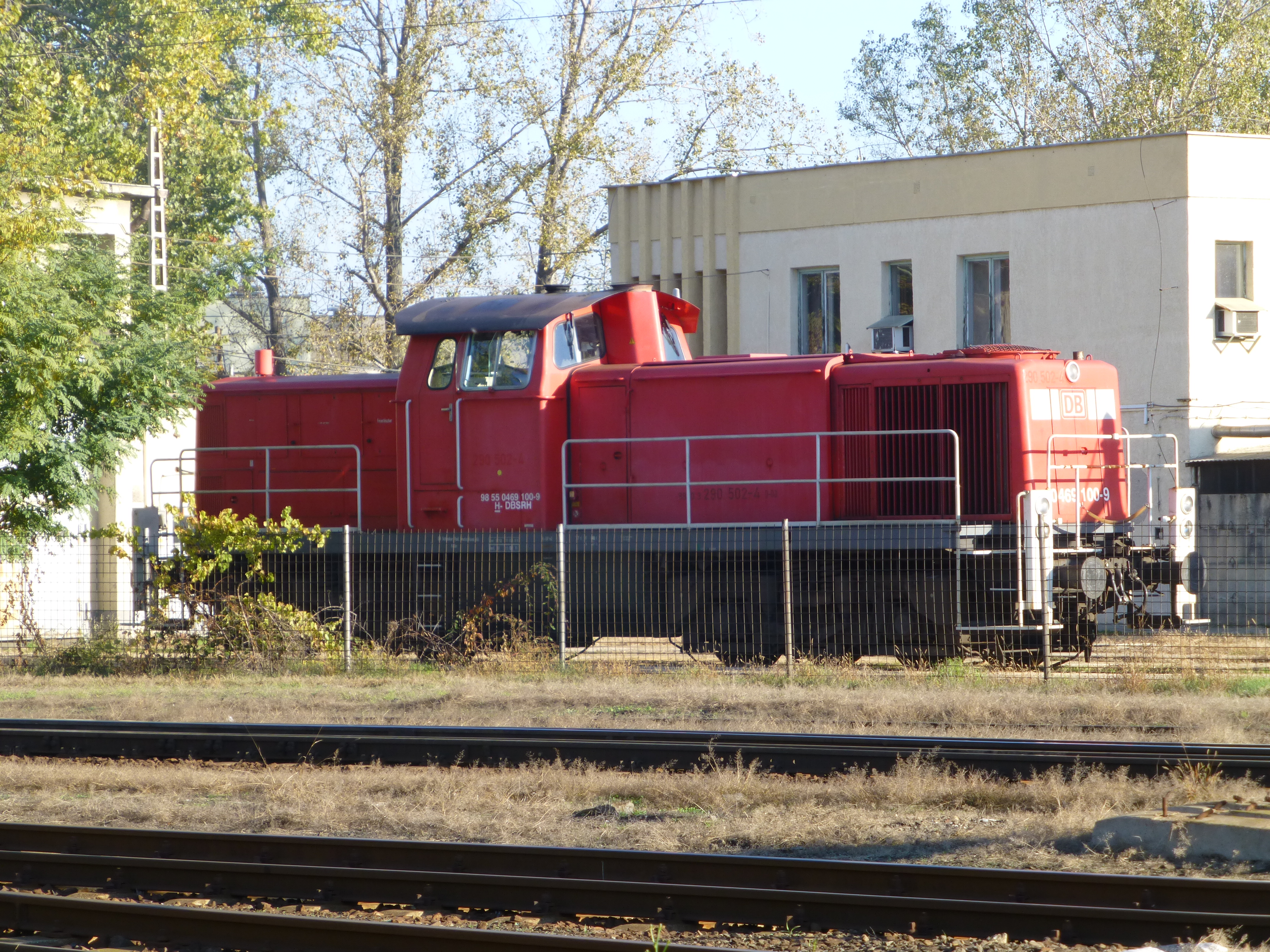 Diesel engine of the DB Schenker Rail Hungária in Kecskemét, Hungary.